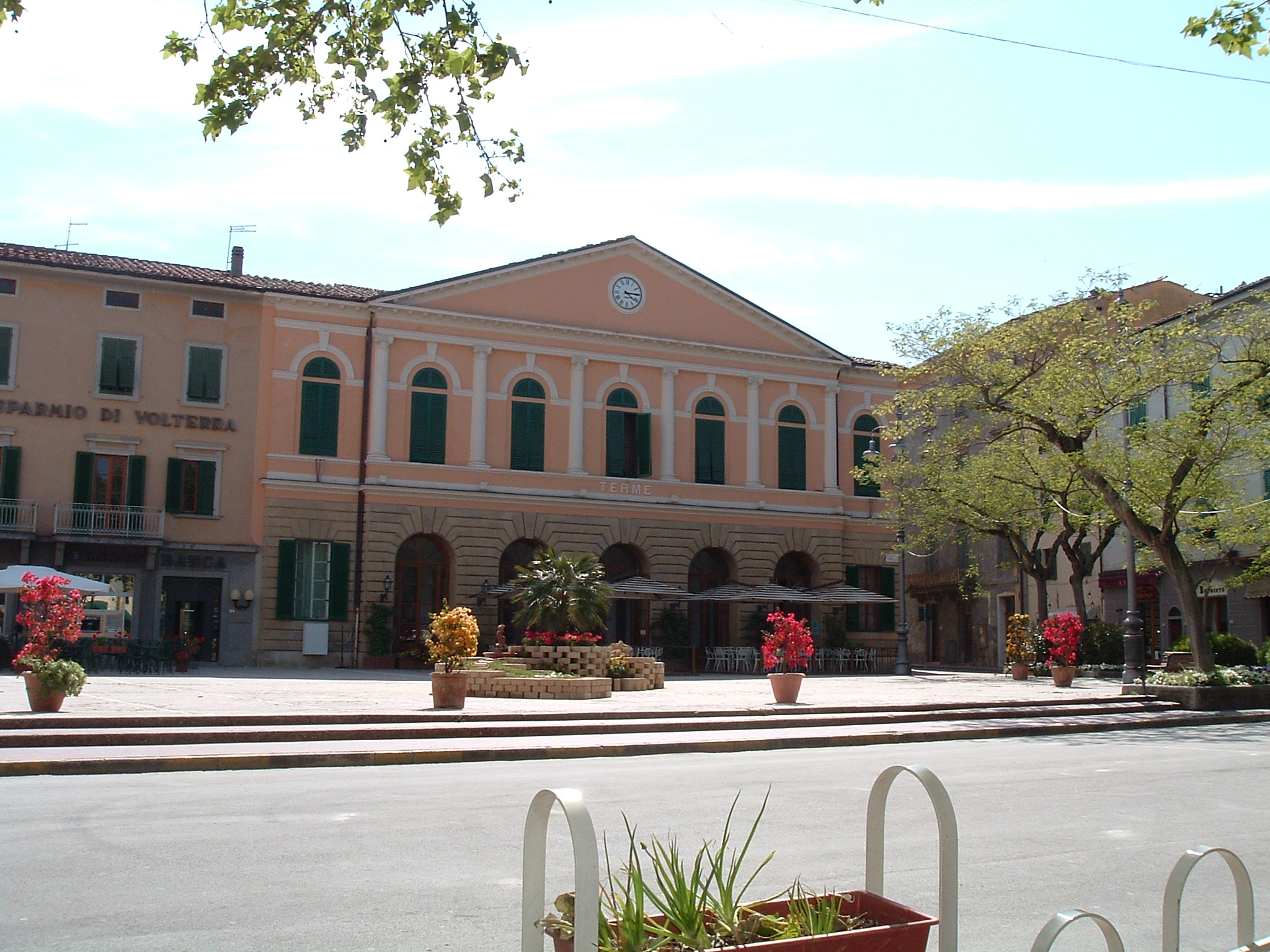 Casciana Terme